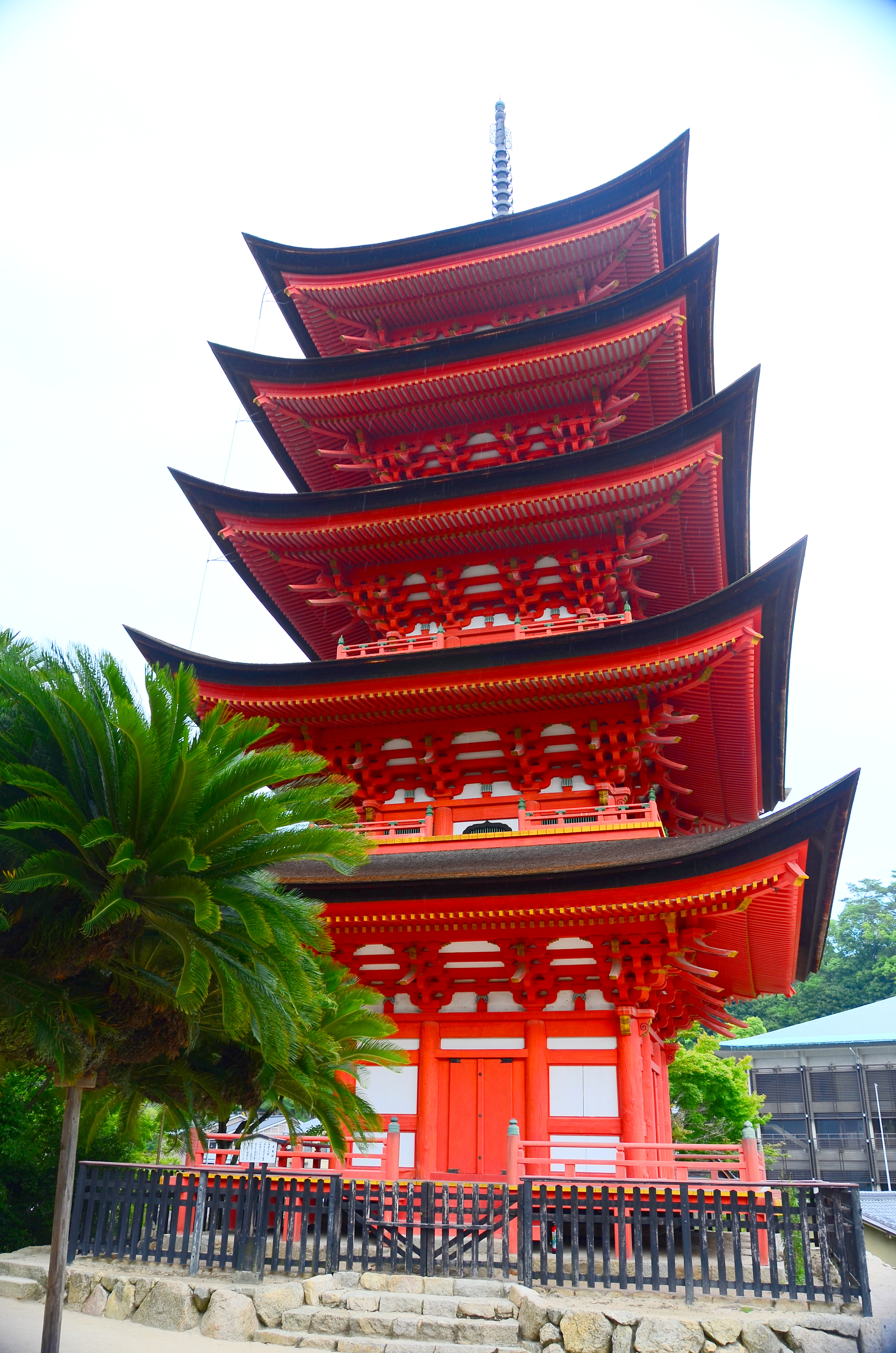 Five-Tiered Pagoda at Itsukushima Shrine on the island of Itsukushima (popularly known as Miyajima) in Hiroshima Prefecture, Japan